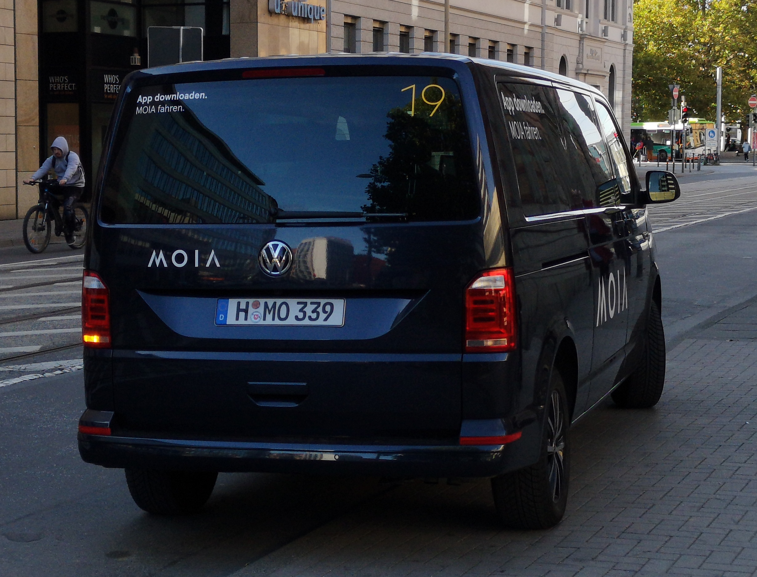 A MOIA taxi in Hanover near central station